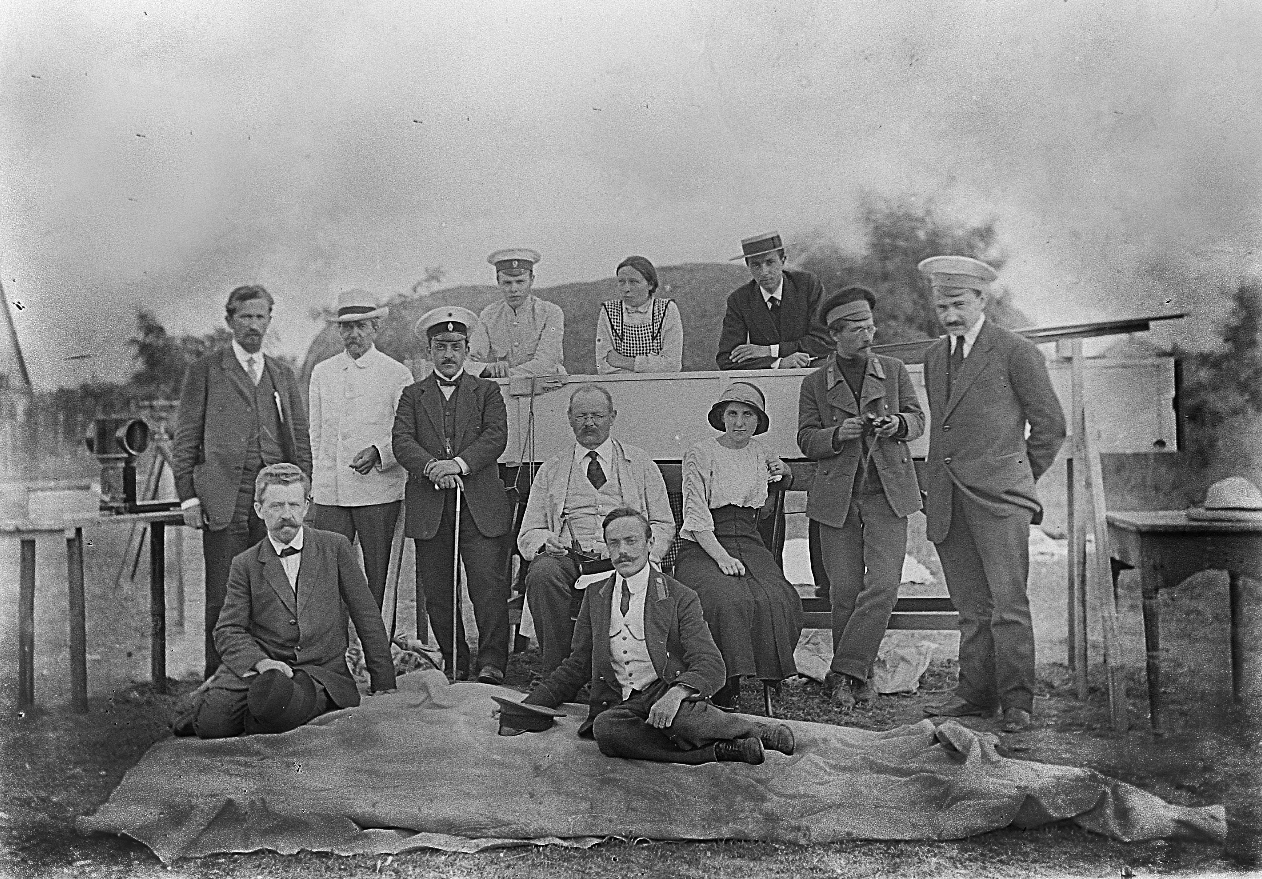 Kharkiv Observers of Eclipse in Henichesk, 1914